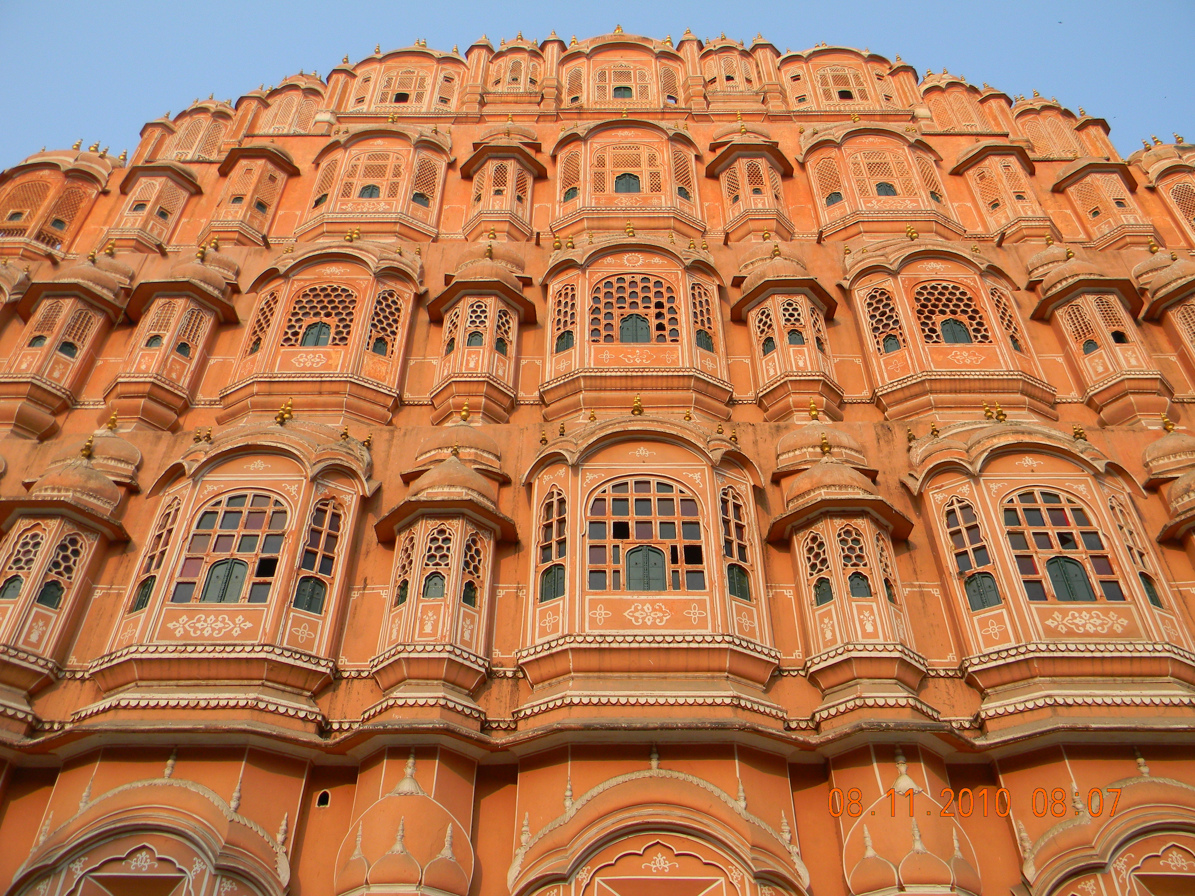 Hawa Mahal, Jaipur